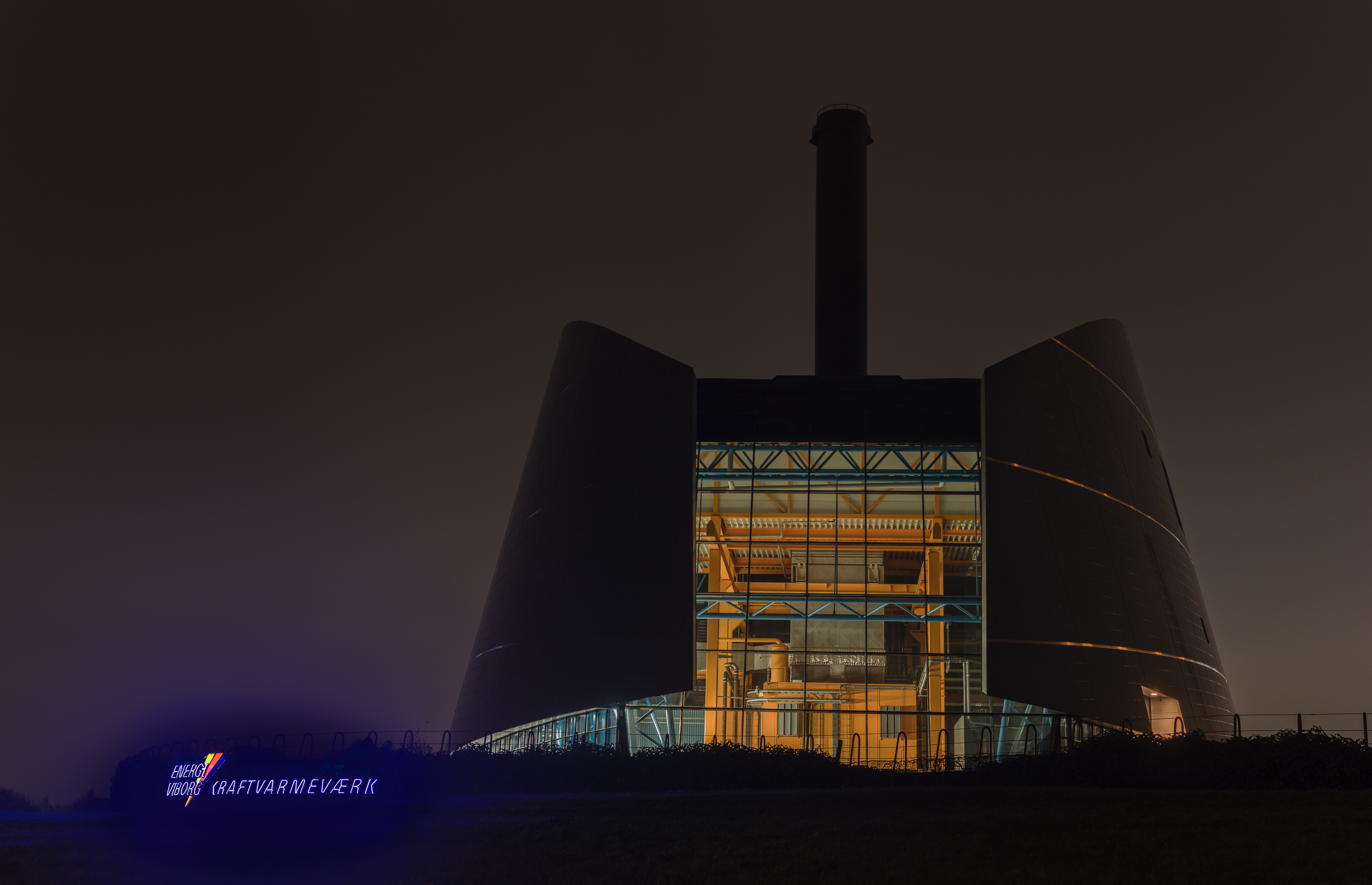 Viborg power plant as seen from the north